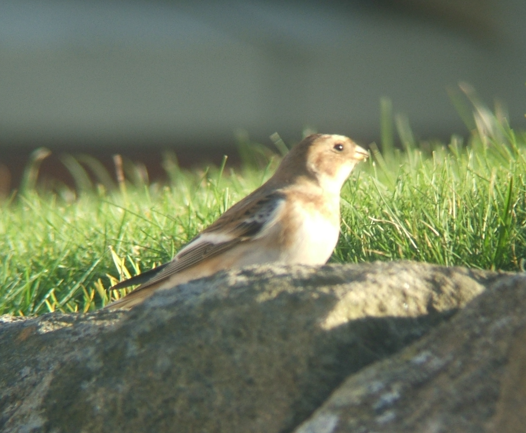 Plectrophenax nivalis, winter plumage male, Whitley Bay, Northumberland, UK